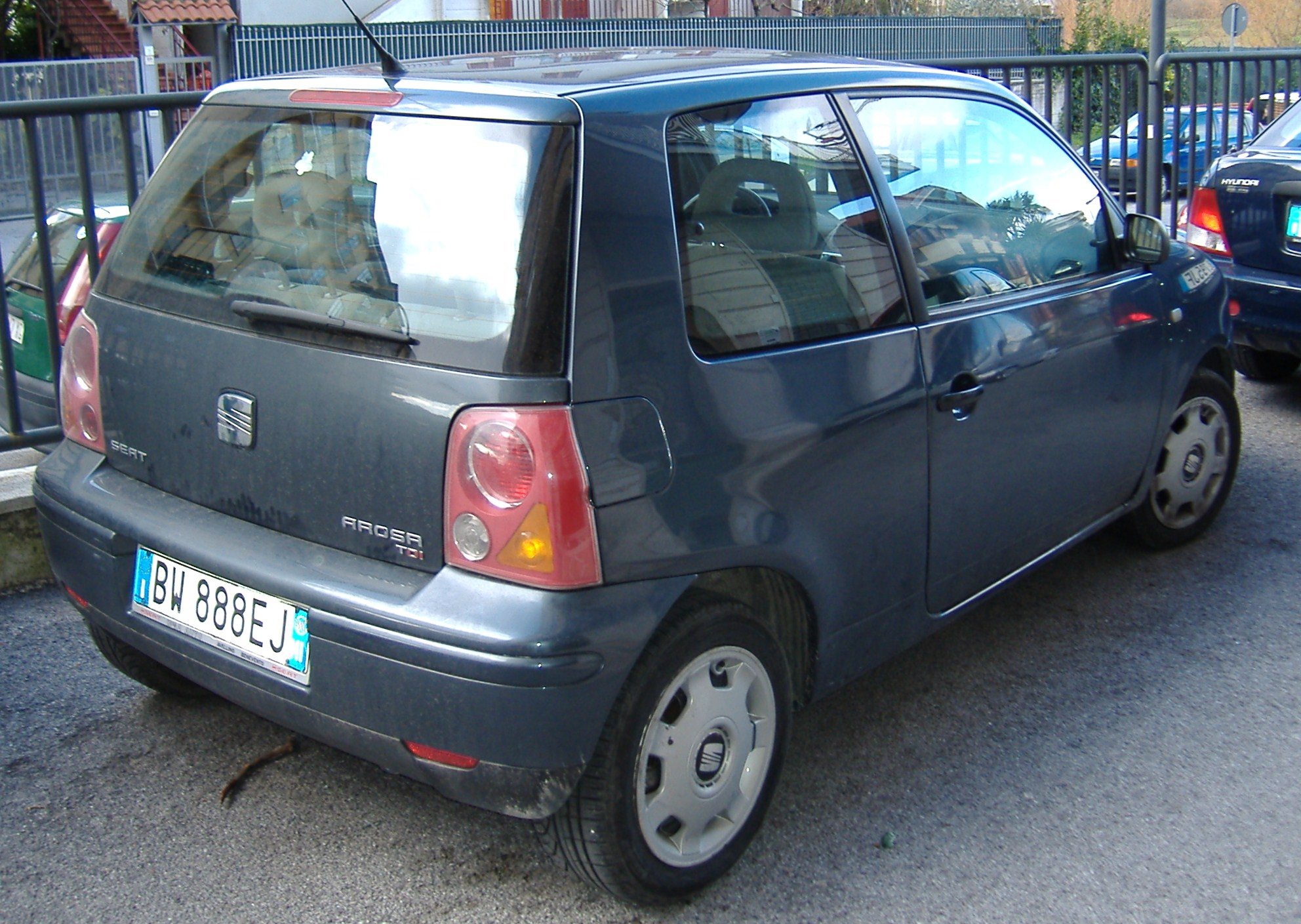 Seat Arosa